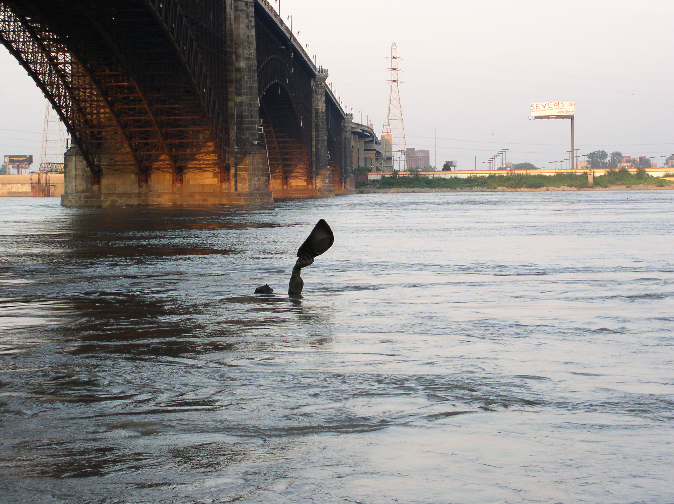 The Captains' Return statue south of the Eads Bridge in St. Louis, MO